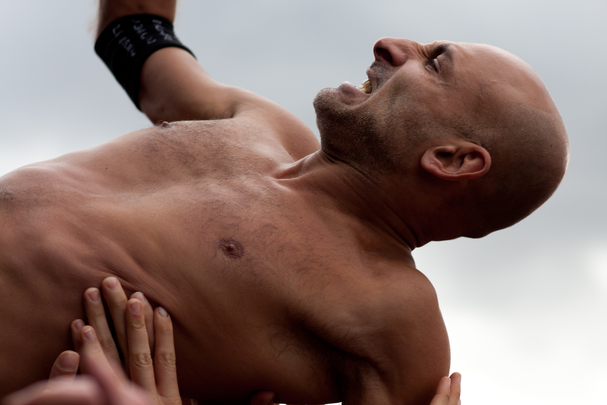 Follow me on facebook Twitter : @didyPhotography All the photographies I've made are now under CC0 (Creative Commons Zero) CC0 - learn more To the extent possible under law, Eddy BERTHIER has waived all copyright and related or neighboring rights to No One Is Innocent @ Fete de L'Humanite 2011. This work is published from: France.